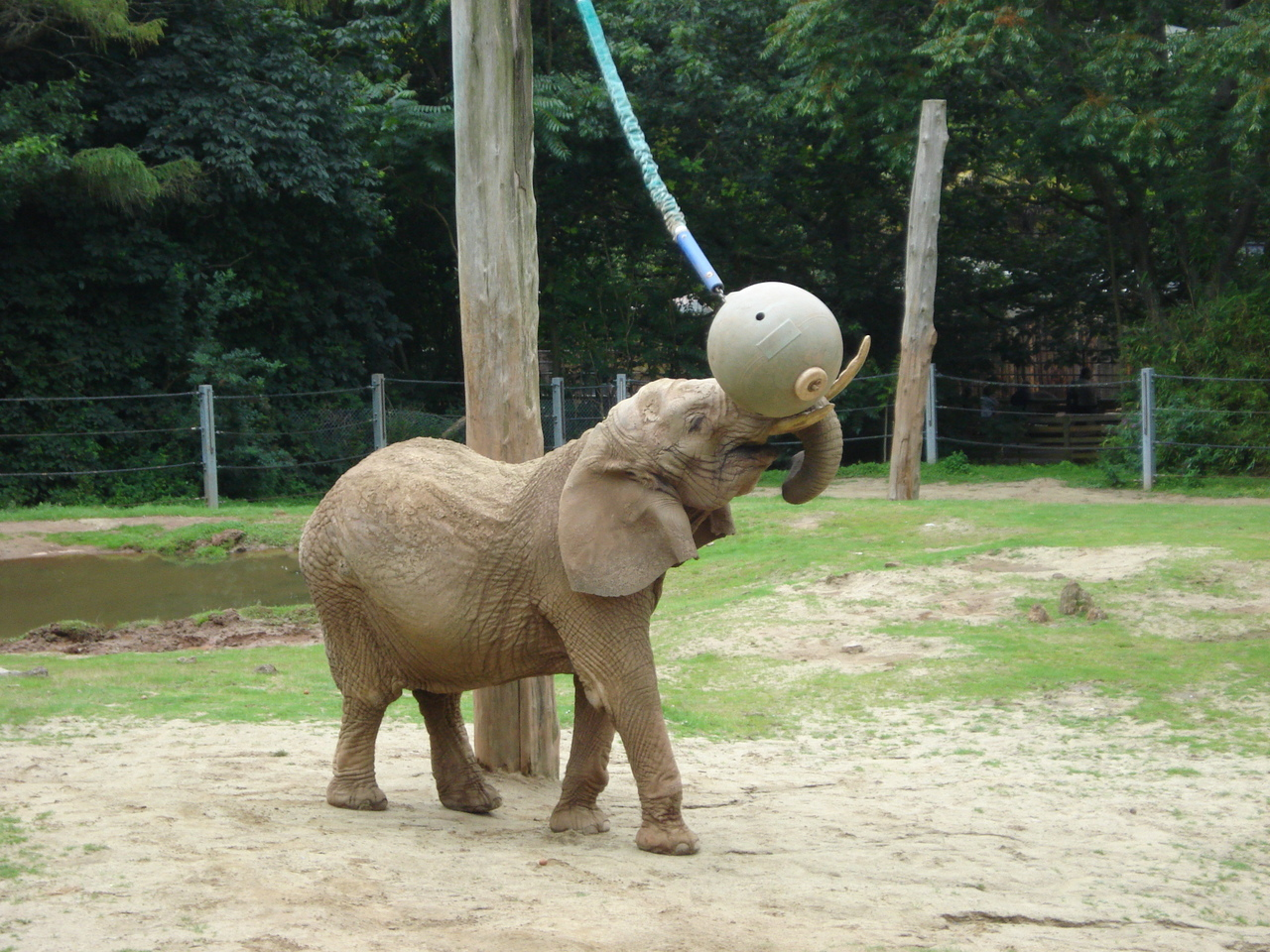 African Elephant with toy at Paignton Zoo, England.